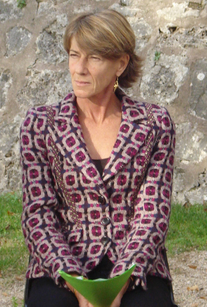 Laurence Vichnievsky, french lawyer